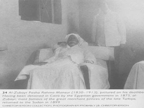 Zubeir Pasha (Al-Zubayr Rahma Mansur) on his deathbed in Sudan